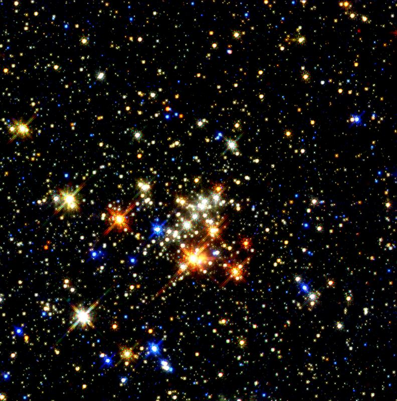 Penetrating 25,000 light-years of obscuring dust and myriad stars, NASA's Hubble Space Telescope has provided the clearest view yet of a pair of the largest young clusters of stars inside our Milky Way galaxy, located less than 100 light-years from the very center of the Galaxy. Having the equivalent mass greater than 10,000 stars like our sun, the monster clusters are ten times larger than typical young star clusters scattered throughout our Milky Way. Both clusters are destined to be ripped apart in just a few million years by gravitational tidal forces in the Galaxy's core. But in the brief time they are around, they shine more brightly than any other star cluster in the Galaxy. Arches cluster (left): The more compact Arches cluster is so dense, over 100,000 of its stars would fill a spherical region in space whose radius is the distance between the Sun and its nearest neighbor, the star Alpha Centauri, 4.3 light-years away. At least 150 of its stars are among the brightest ever seen in the Galaxy. Quintuplet cluster (right): This 4-million-year-old cluster is more dispersed than the Arches cluster. It has stars on the verge of blowing up as supernovae. It is the home of the brightest star seen in the Galaxy, called the Pistol star. Both pictures were taken in infrared light by Hubble's NICMOS camera in September 1997. The false colors correspond to infrared wavelengths. The galactic center stars are white, the red stars are enshrouded in dust or behind dust, and the blue stars are foreground stars between us and the Milky Way's center. The clusters are hidden from direct view behind black dust clouds in the constellation Sagittarius. If the clusters could be seen from Earth they would appear to the naked eye as a pair of third magnitude "stars," 1/6th of a full moon's diameter apart.